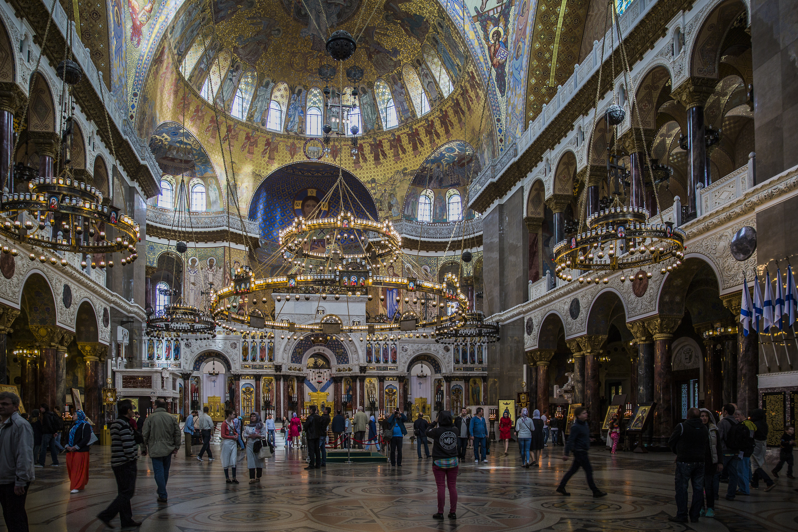 Naval Cathedral in Kronstadt was built from 1908 to 1913 and is considered to represent a culmination of Russian Neo-Byzantine architecture.